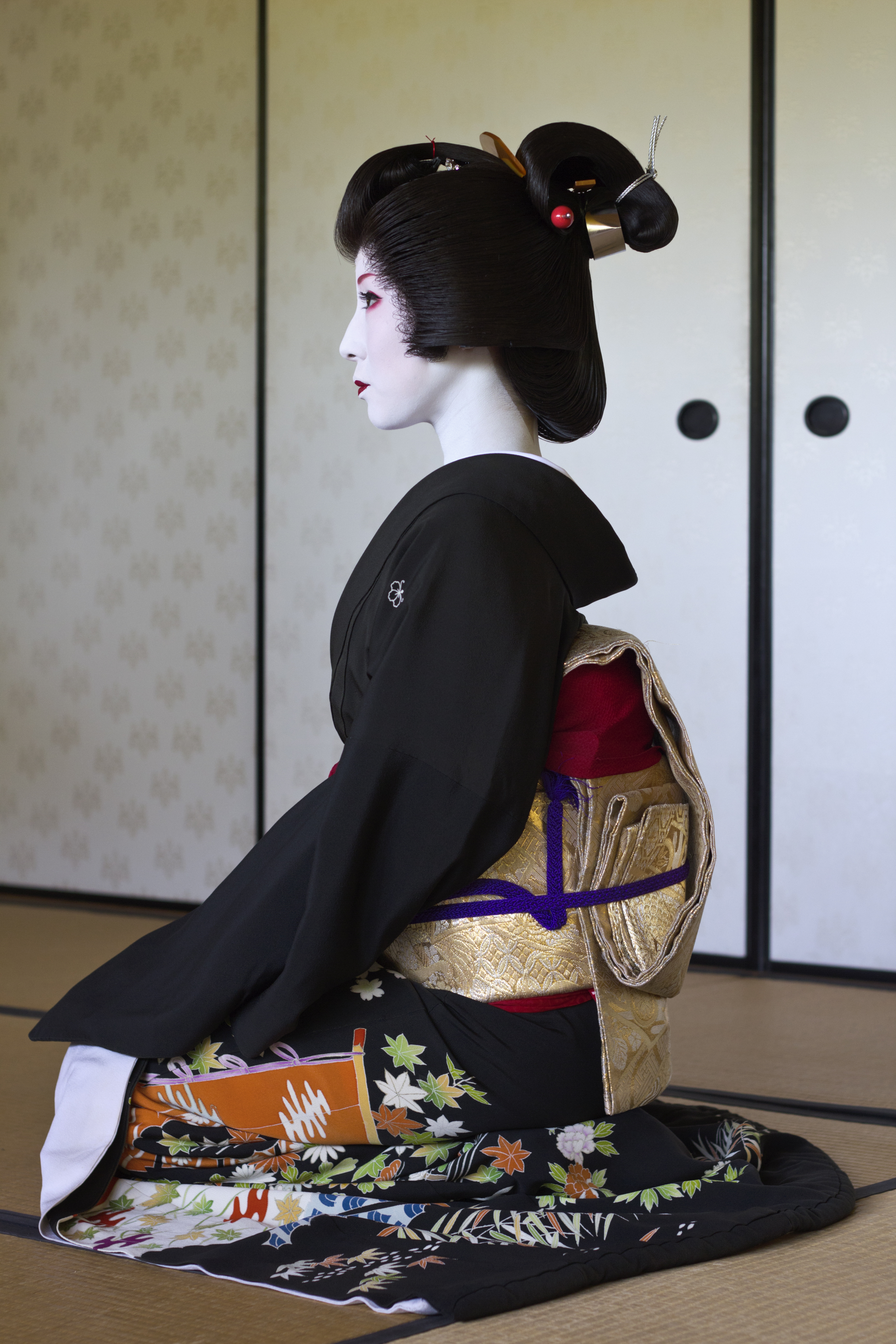 Side view of the geisha/geiko Kimiha (君波), in a nihongami wig and a somber black kimono suitable to a geiko. Kimiha is a Miyagawa-cho geisha who finished her apprenticeship as a maiko in 2009.